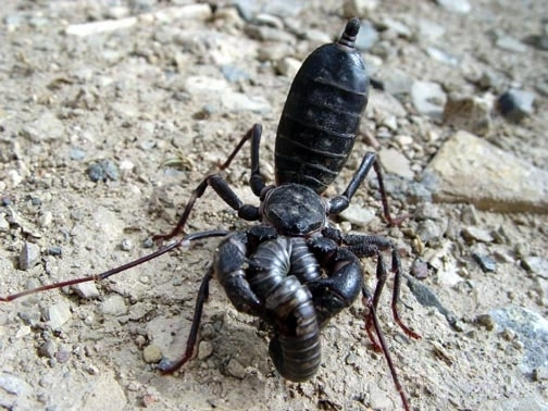 A vinegaroon, (Mastigoproctus giganteus) consuming a Slate Millipede (Comanchelus chihuanus). San Andres National Wildlife Refuge, New Mexico, USA